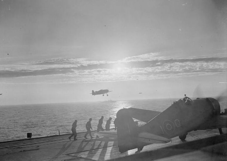 The Royal Navy during the Second World War In the midnight sun, Grumman Hellcats of 1840 Squadron, Fleet Air Arm returning to HMS FURIOUS in Arctic waters after the strike against the TIRPITZ and other enemy shipping during Operation Mascot on 17 July 1944. One of the aircraft is in the air whilst another can be seen on the flight deck in the foreground.